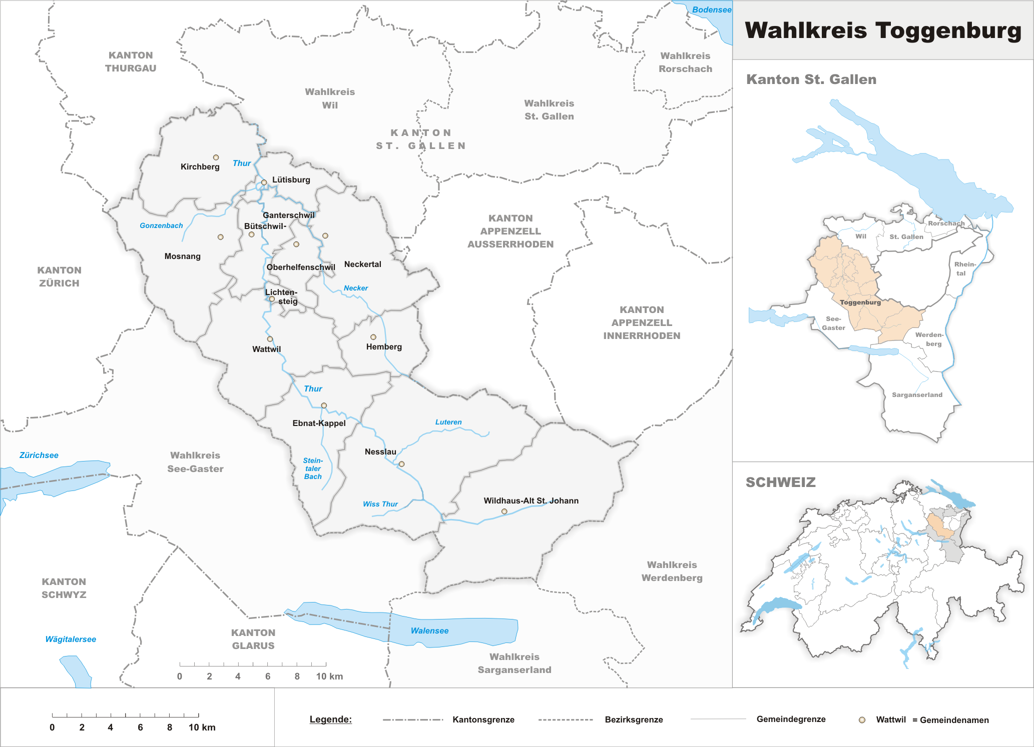 Municipalities in the district of Toggenburg